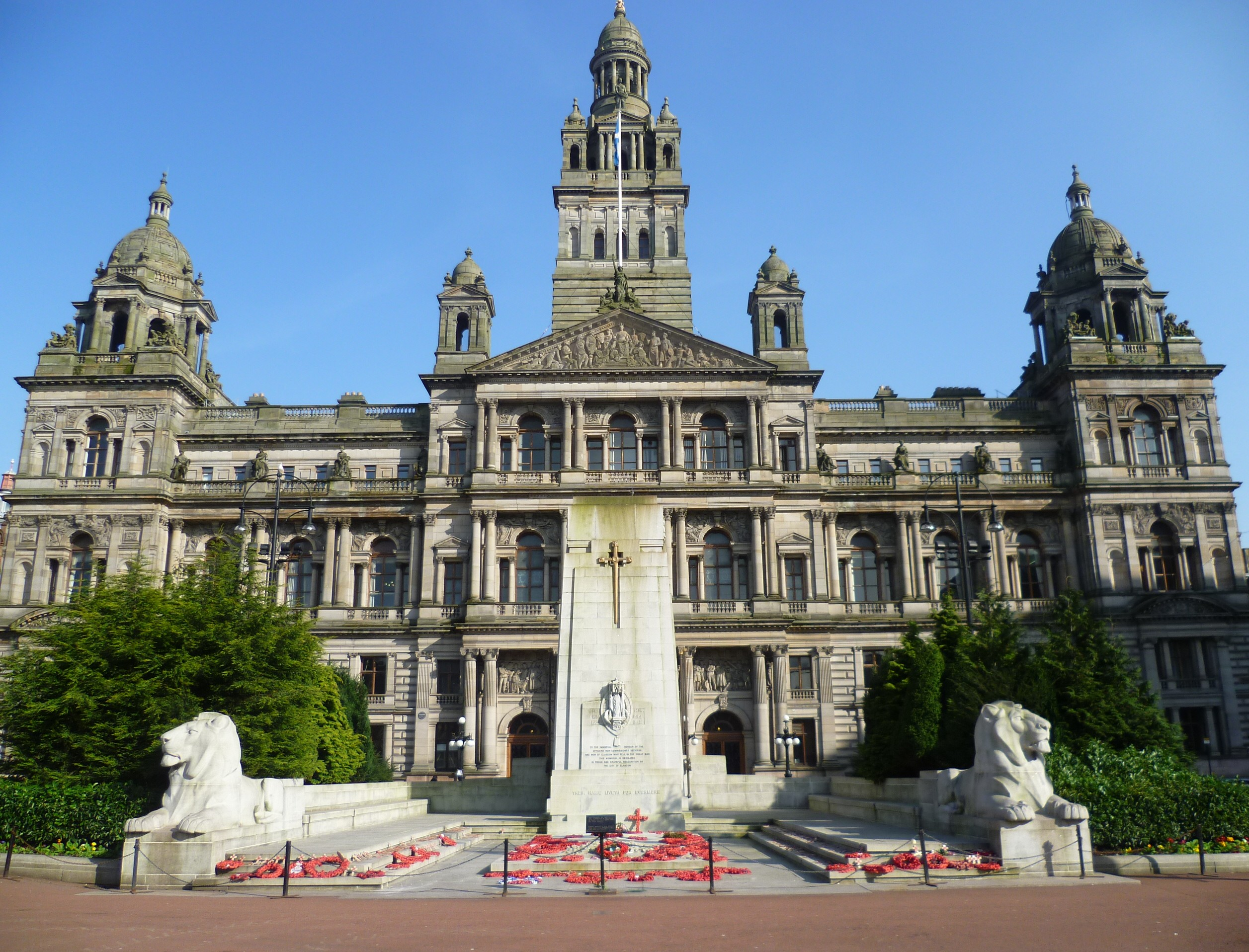 Glasgow City Chambers and War Memorial